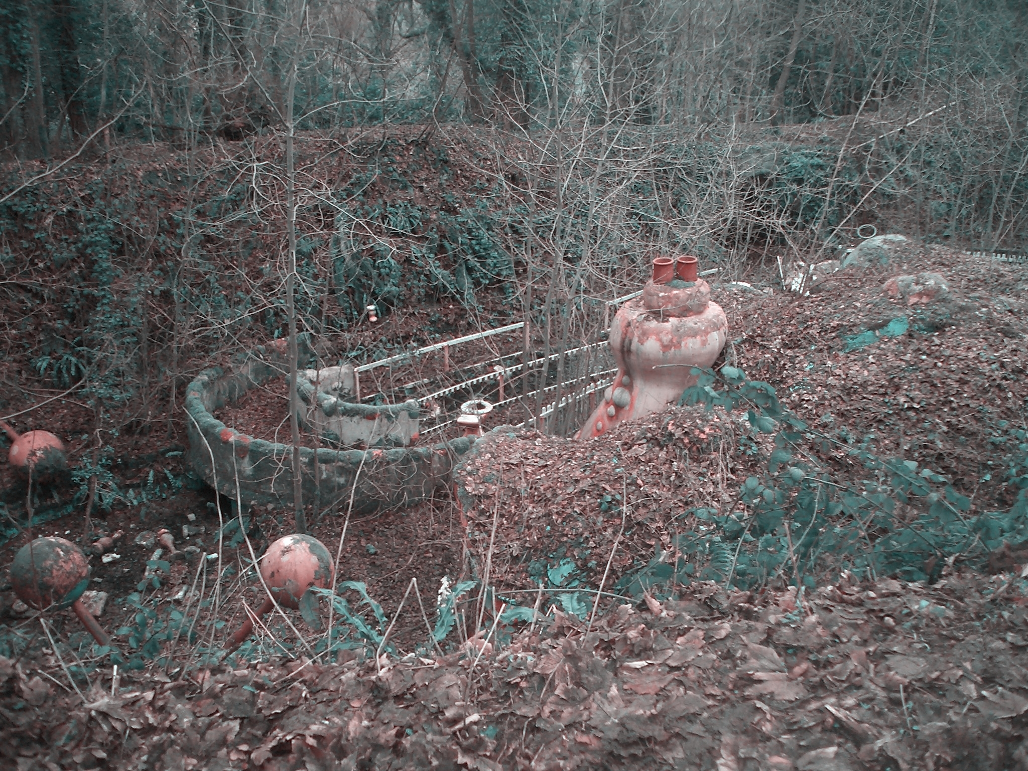 Abandoned house/theme park built by Noel Edmunds